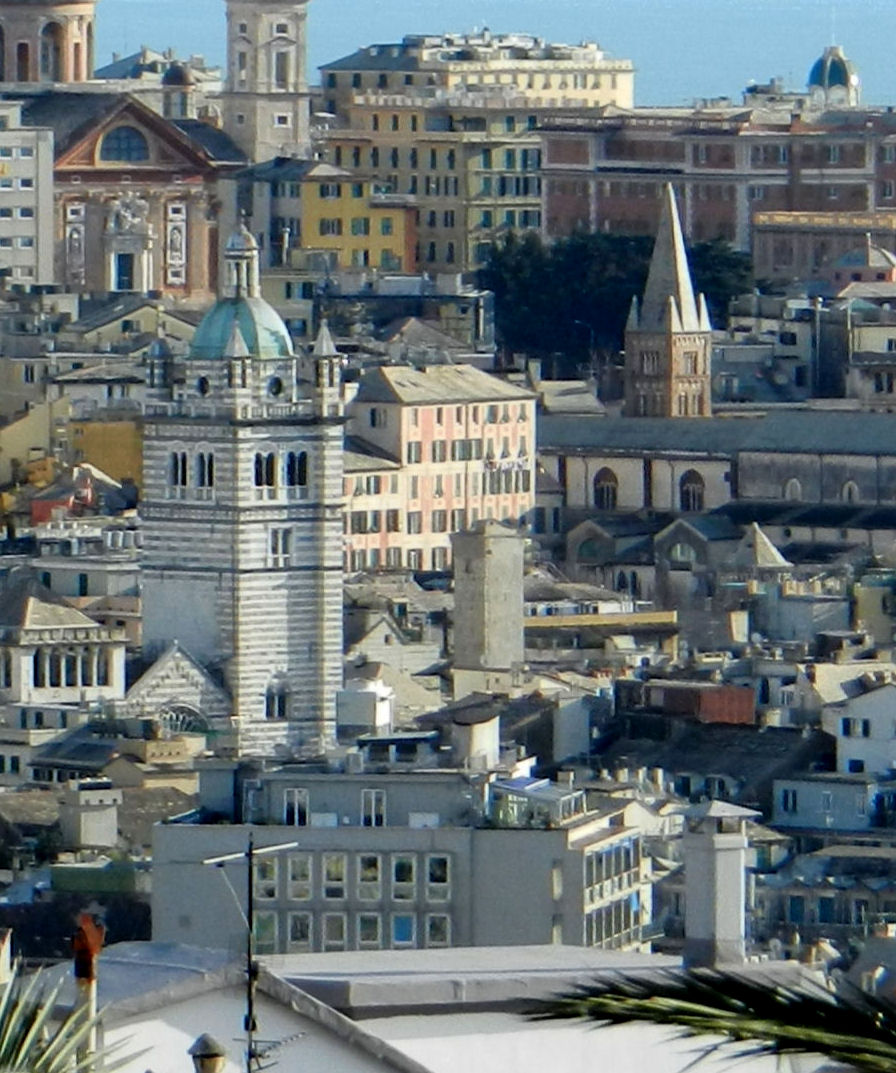 Genoa, Tower Maruffo (between St. Lawrence and St. Augustin bell towers)